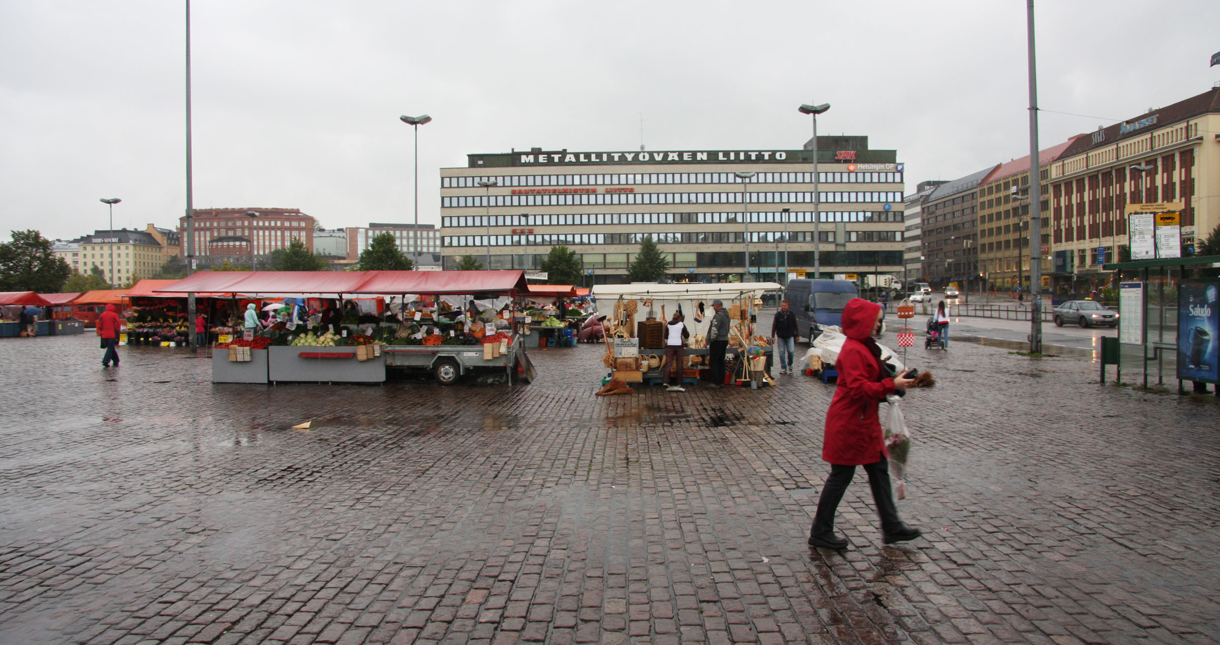 Hakaniemen tori, a square in Helsinki